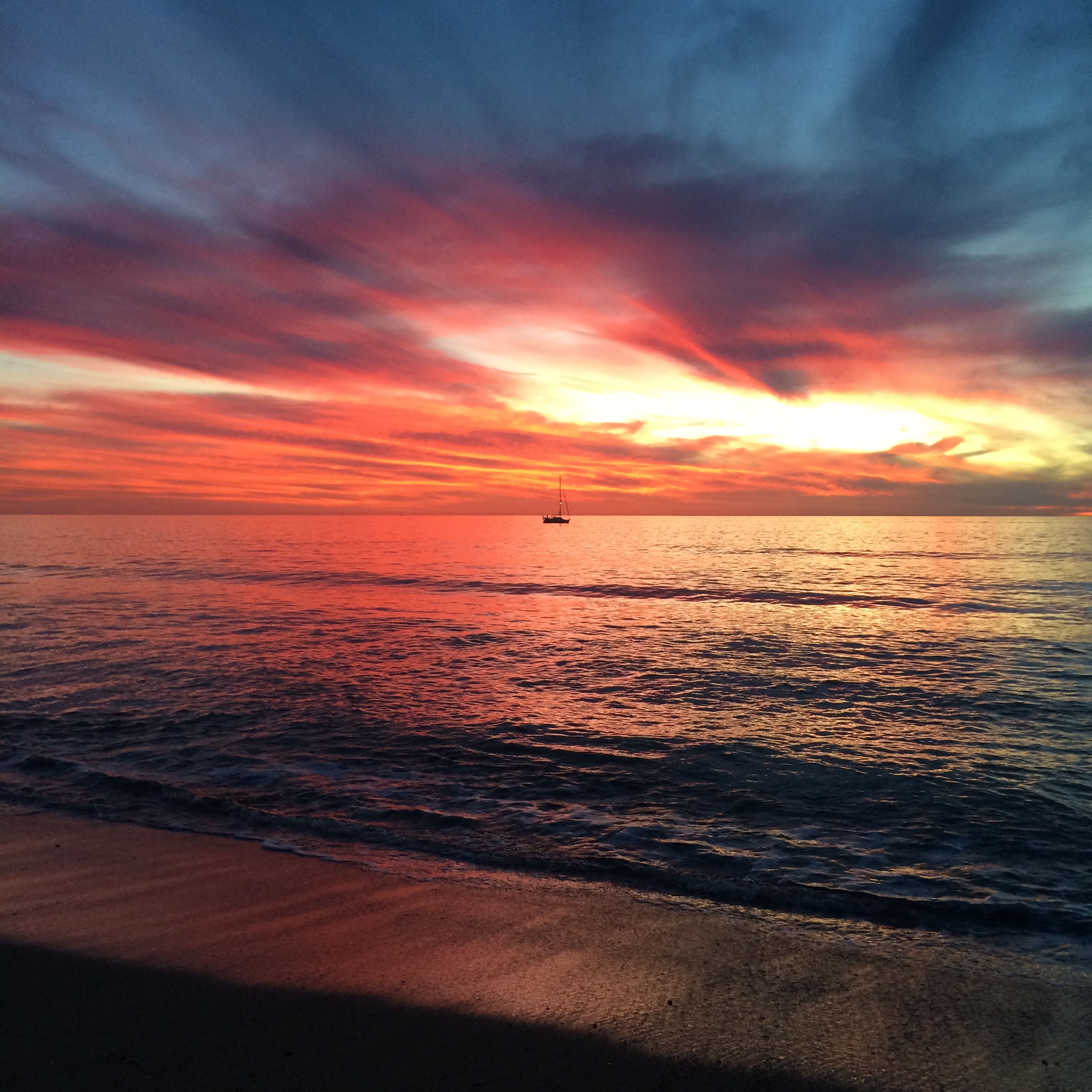 Amazing sunset